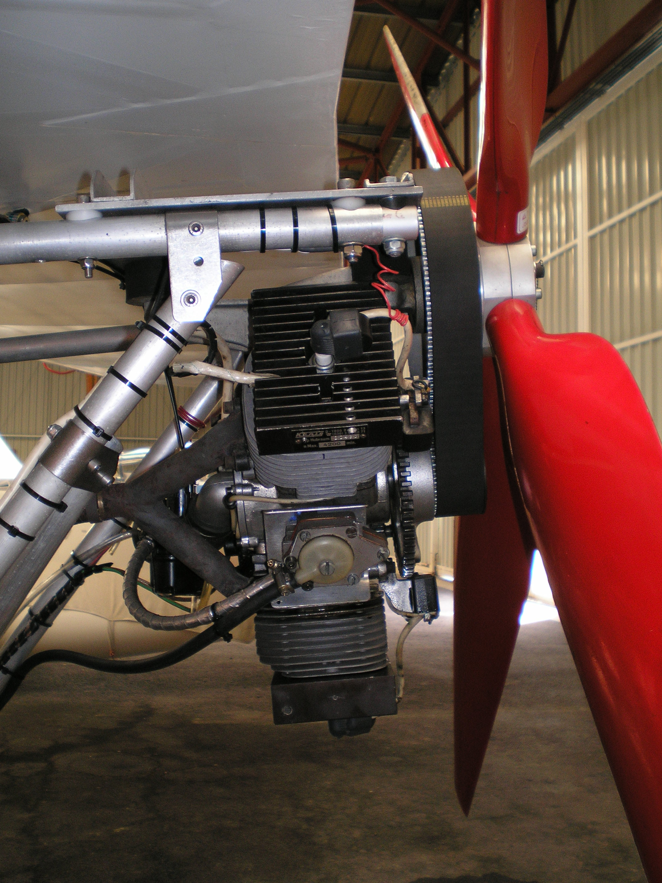 König SC430 on a Mitchell Wing B-10 with 3:1 reduction drive and Neuform 1.7m 4-blade prop